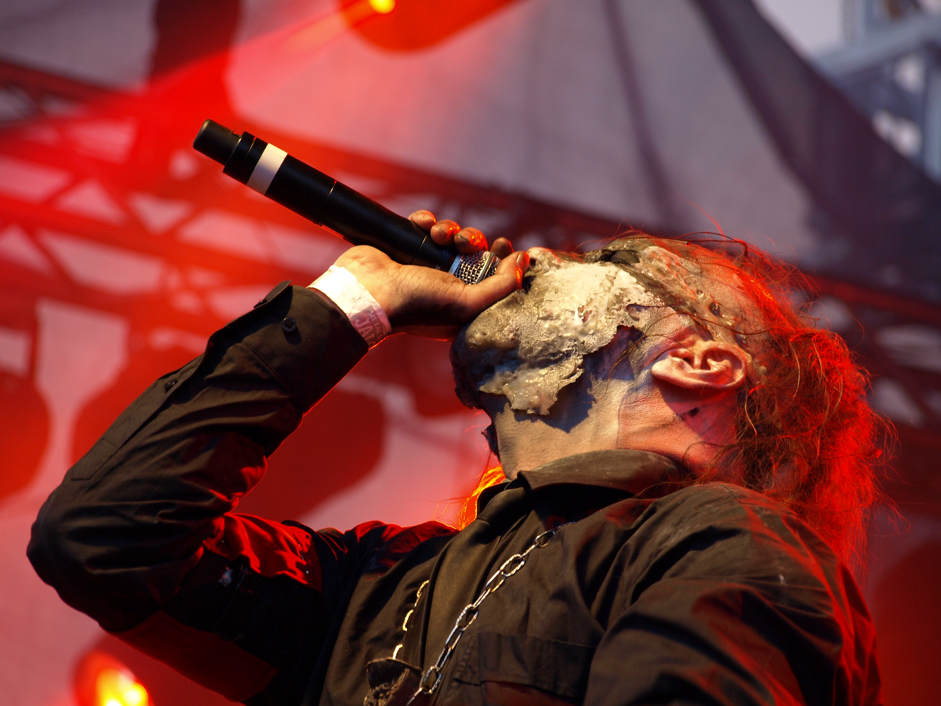 Norwegian black metal band Mayhem live at Jalometalli 2008 in Oulu.